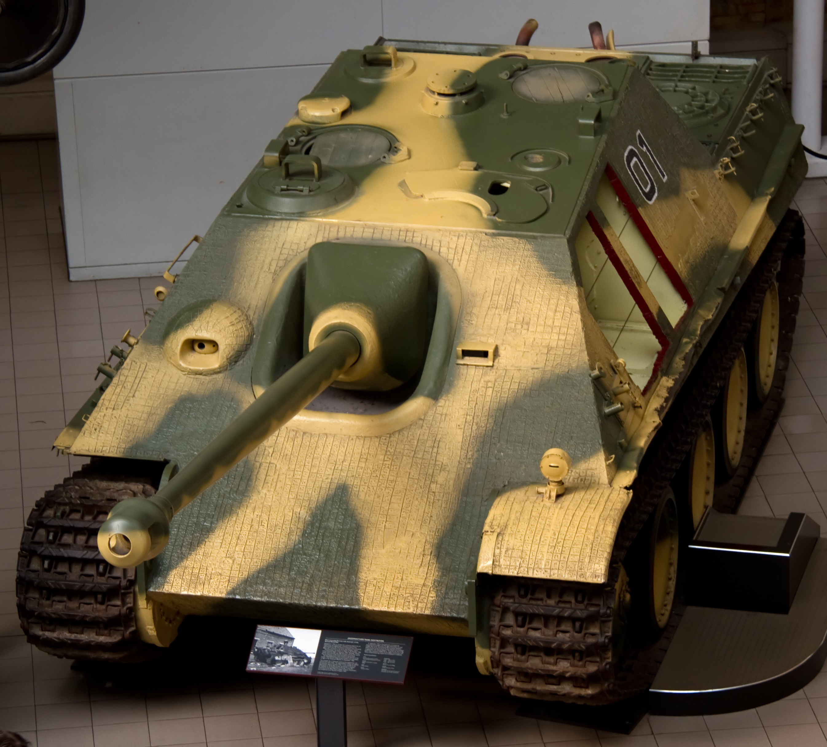 Jagdpanther Tank Killer